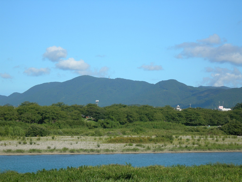 Mt. Asama-yama in Mie Prf. Japan.